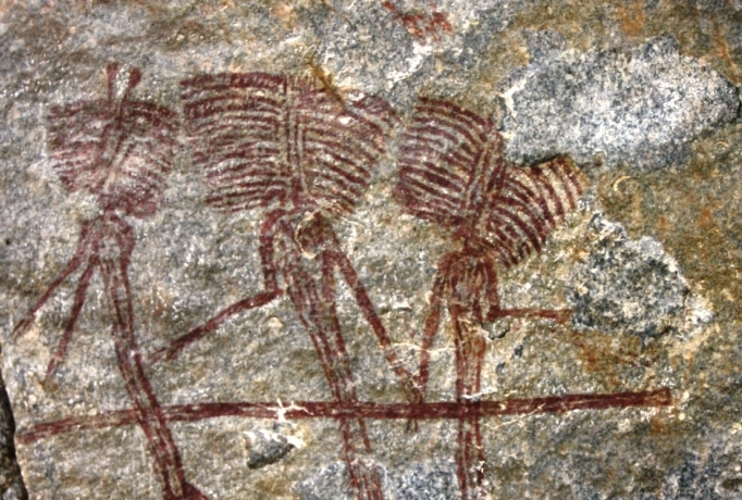 Rock paintings at Kondoa, Tanzania 2012